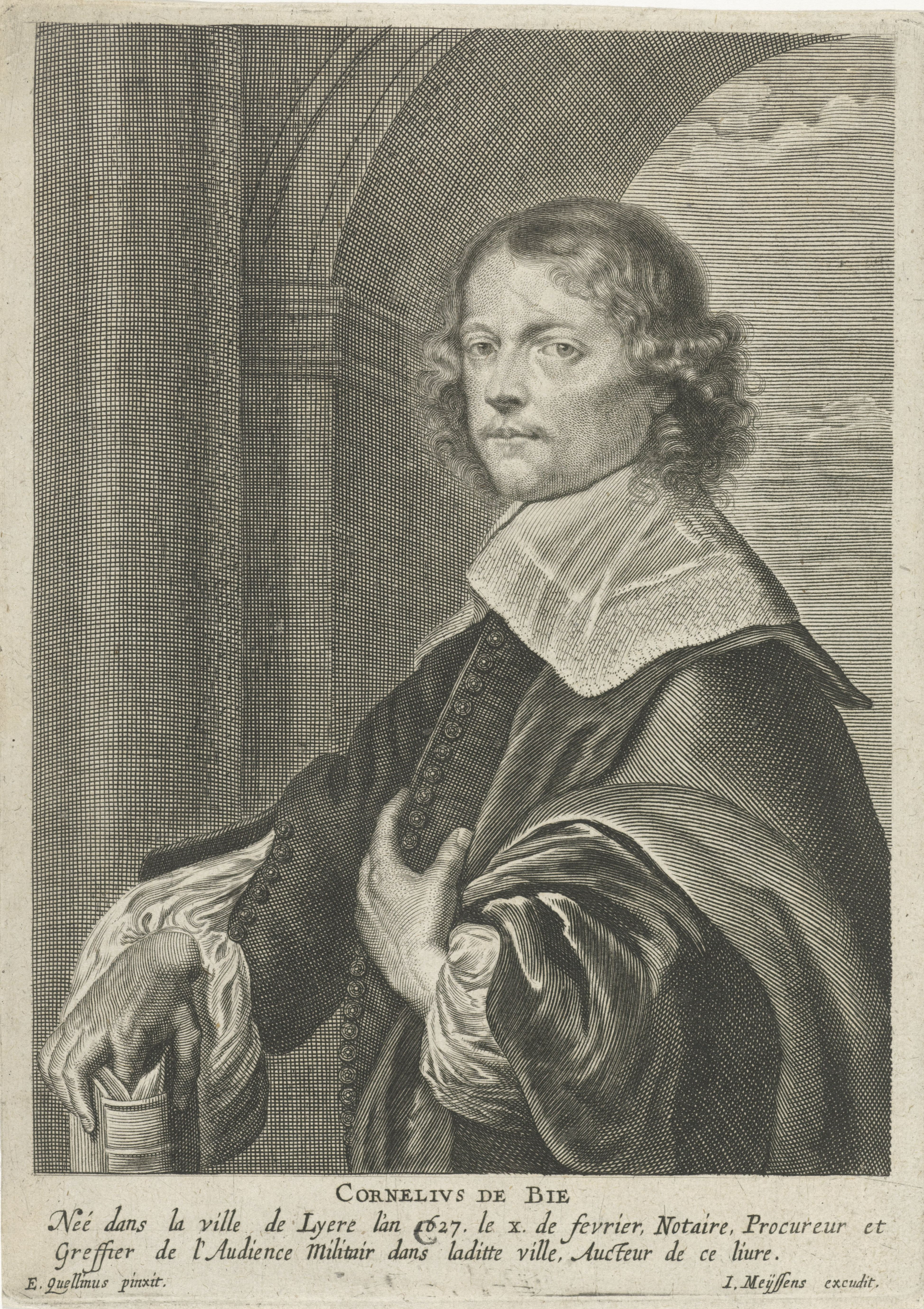 Portrait of Cornelis de Bie from his book, Het Gulden Cabinet.